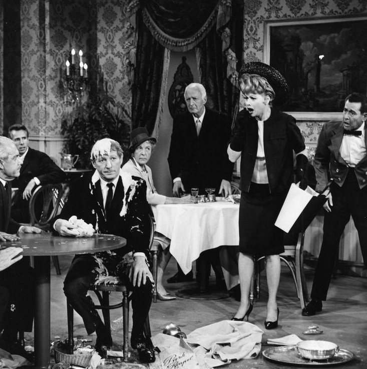 Photo of Lucille Ball and guest star Danny Kaye from the television program The Lucy Show. Lucy gets into the soup with Danny Kaye while trying to meet him.